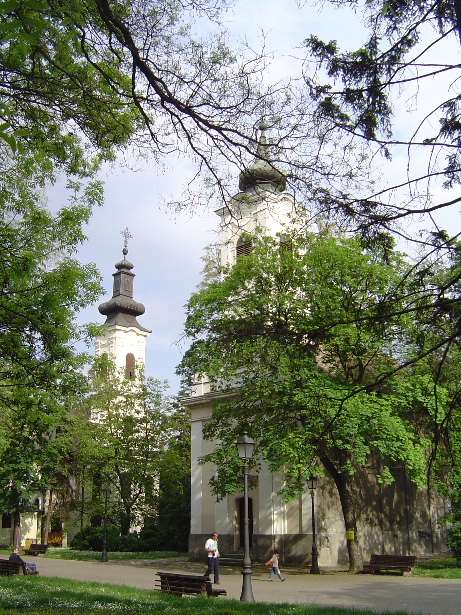 Serbian Ortodox church of St. Gabriel (left) and Catholic church of St. Roch (right) in Gradski park, Zemun.